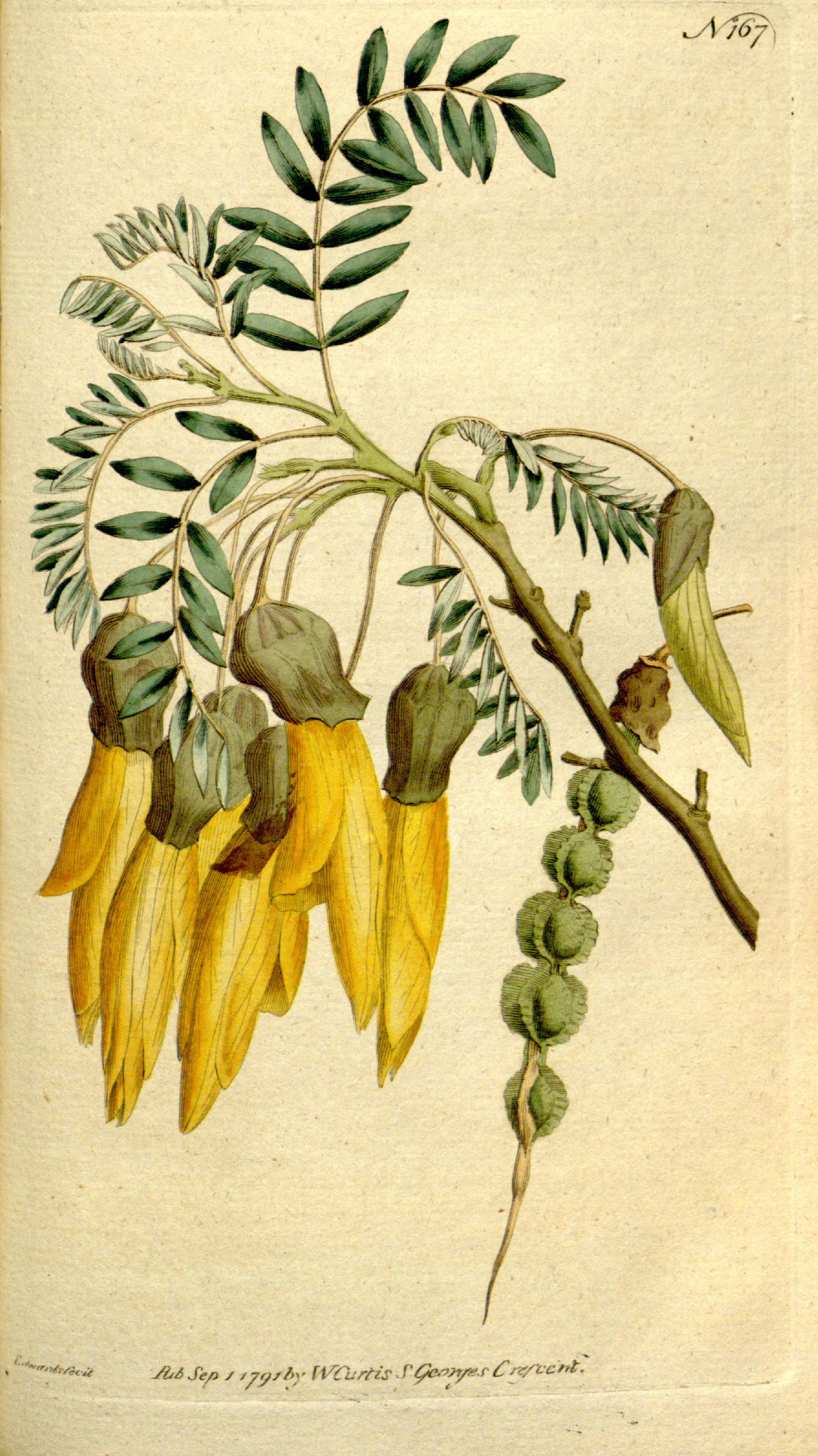 This is a plate from The Botanical Magazine, Volume 5.